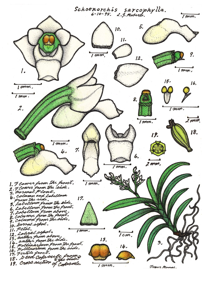 This image is one of a series by Lewis Roberts